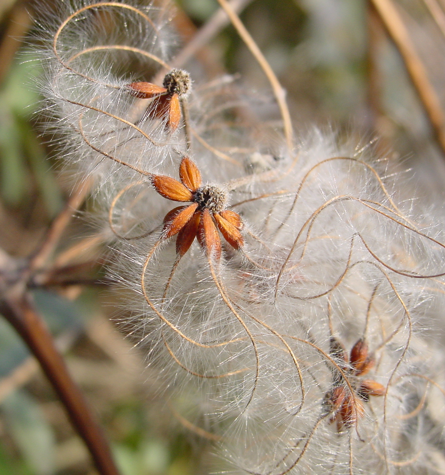 Clematis vitalba fruits